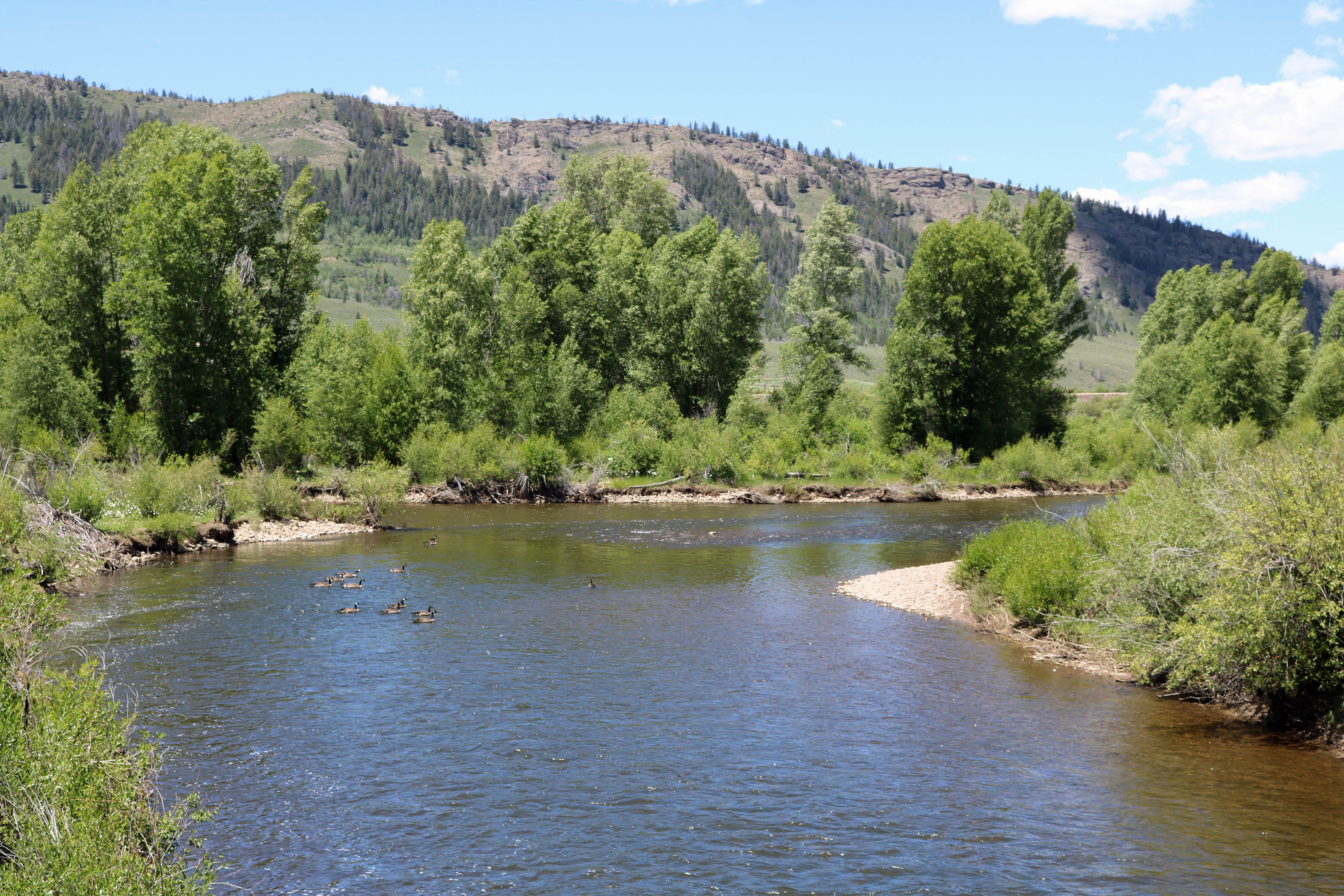 The confluence of the Fraser River and the Colorado River near Granby, Colorado. The Colorado River appears at the bottom of the picture and turns to the right. The Fraser River joins the Colorado River from the left side of the picture.